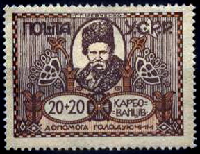 Semi-postal stamp of the Ukrainian Soviet Socialist Republic, 1923. Taras Shevchenko